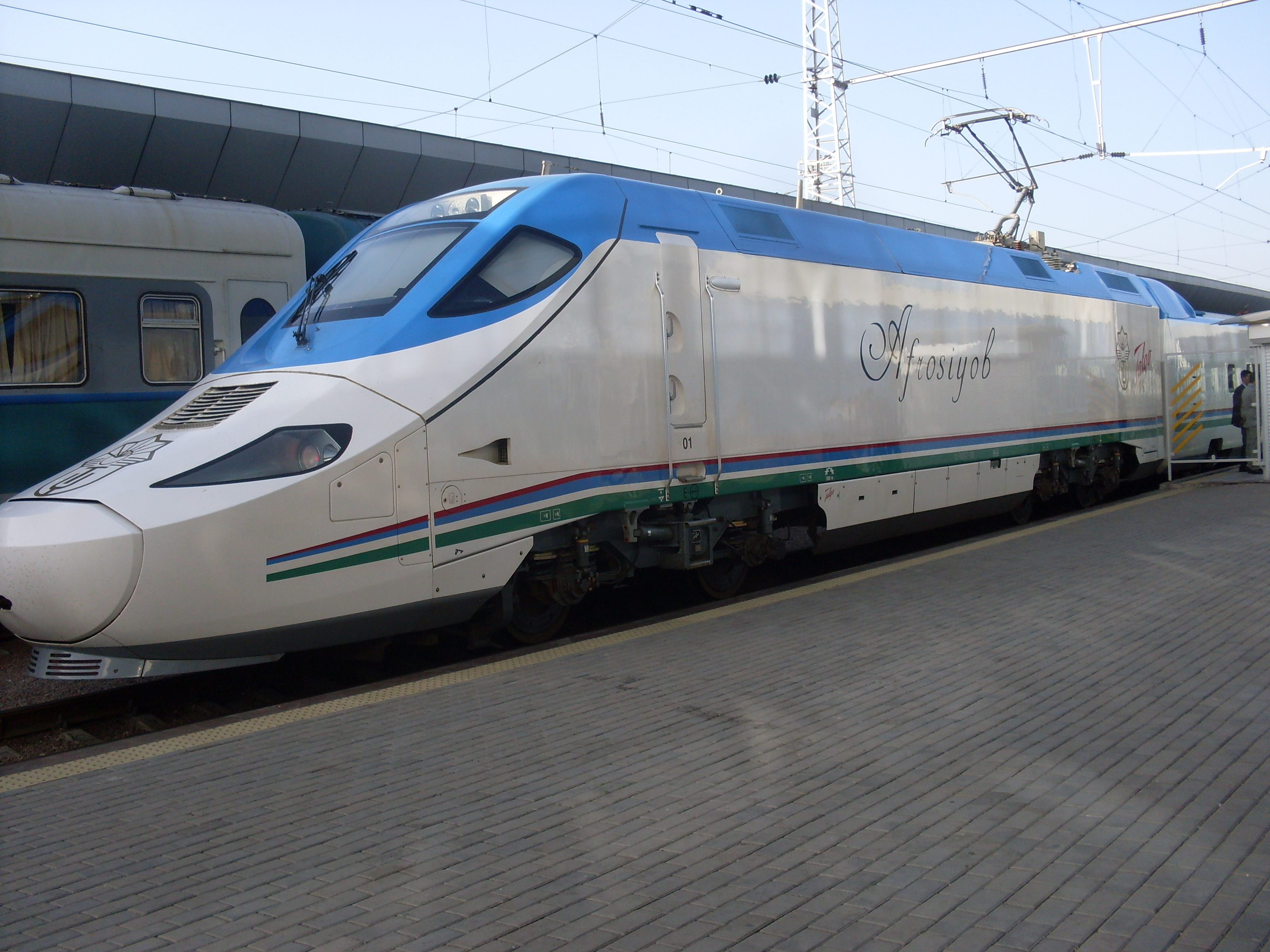 Hi-speed train "Afrosiyob"